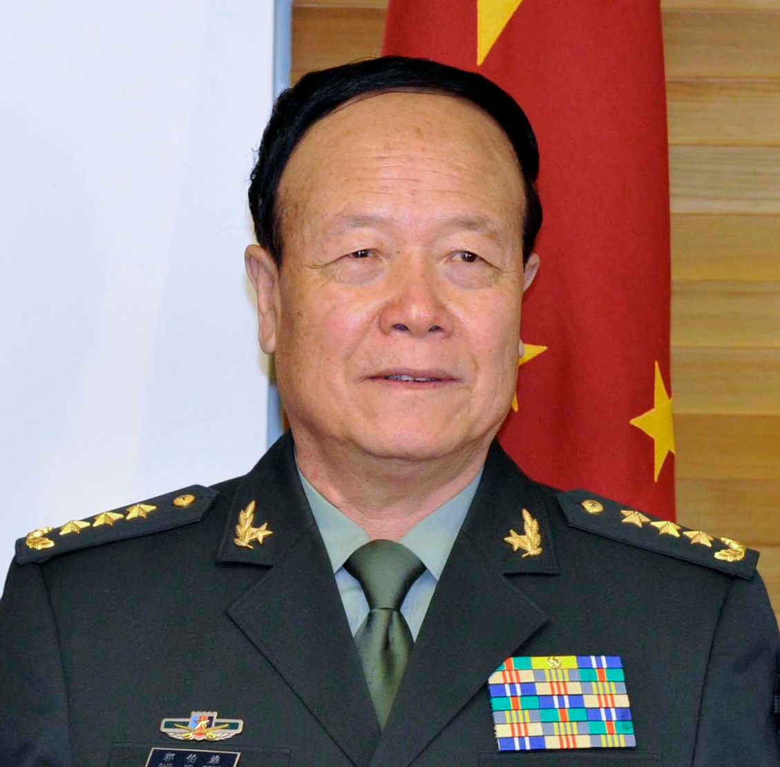 Guo Boxiong